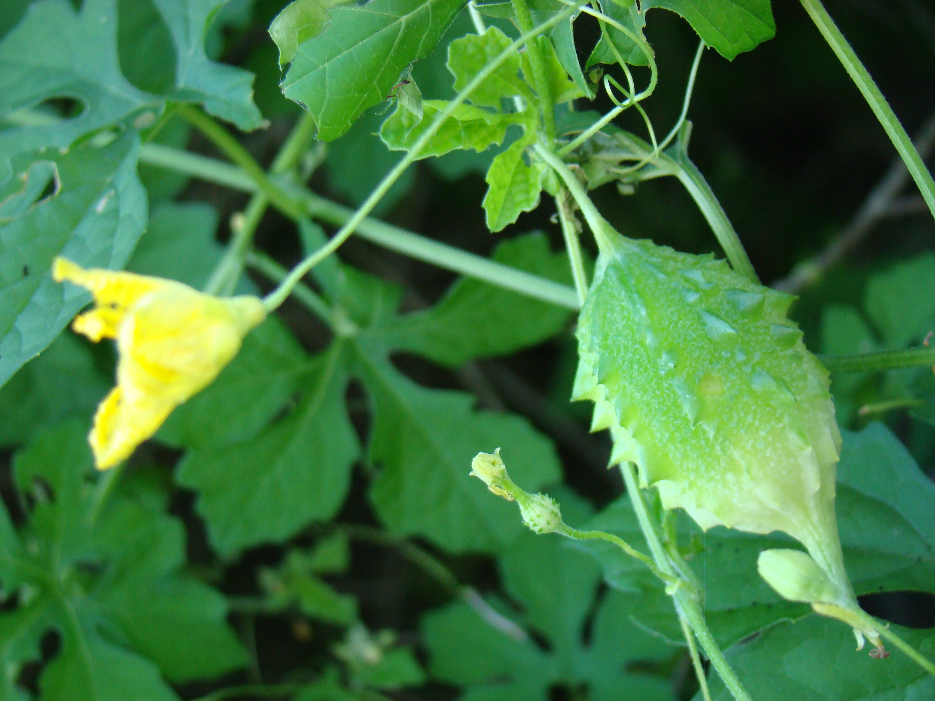 An unripe fruit and a flower on a Balsam Pear vine (Momordica balsamina / Cucurbitaceae) in the Merritt Island National Wildlife Refuge, Merritt Island, Florida.